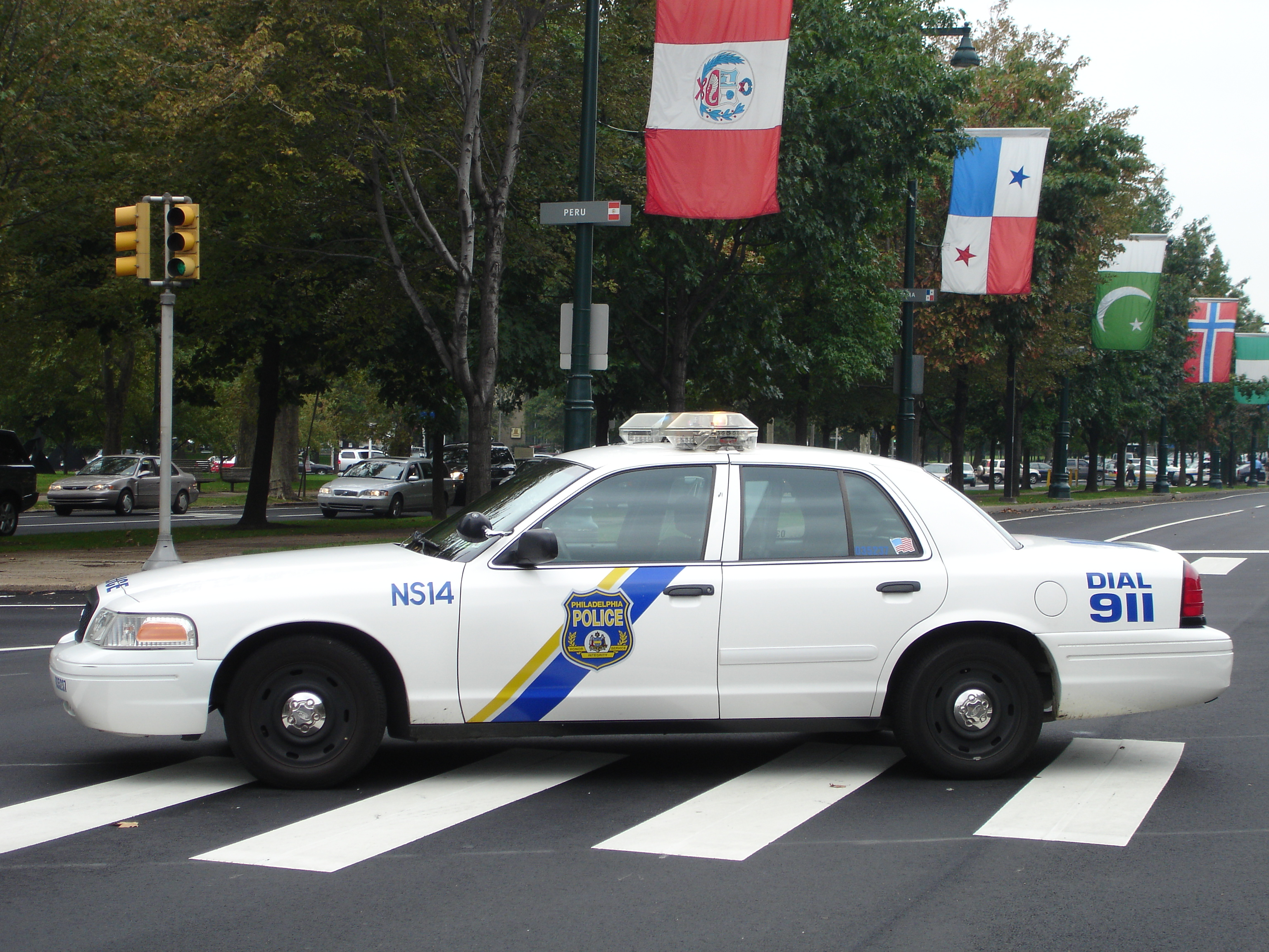 Philadelphia police cruiser on the Ben Franklin Parkway.